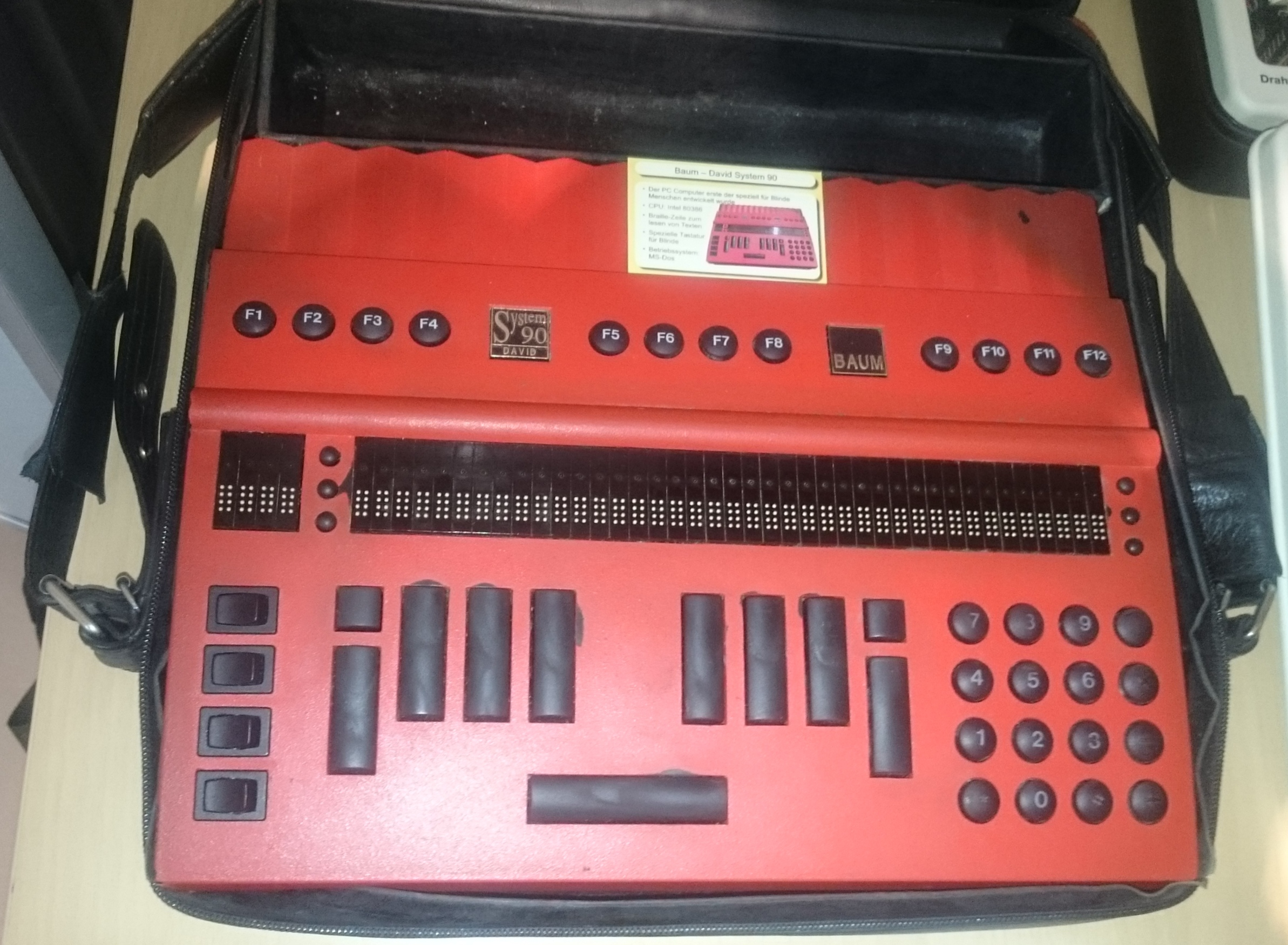 A Baum David System 90 special-purpose computer for the blind, with a braille "screen", and special keyboard. On Display at Berlin Vintage Computer Festival.